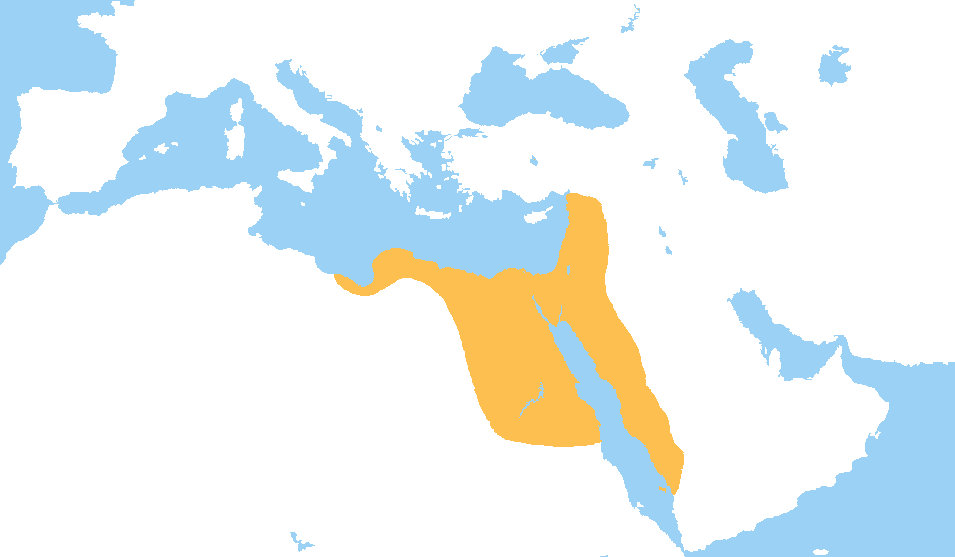 Map of the Mamluk sultanate of Egypt, AD 1279. (Partially based on [1])